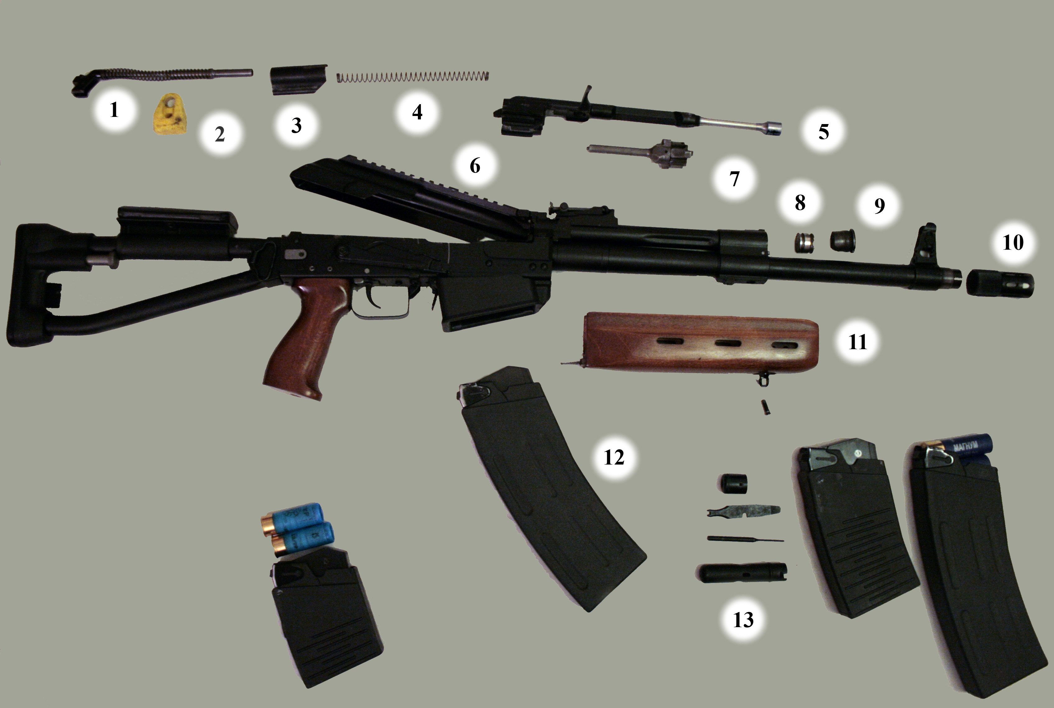 disassembled Saiga 12 cal shotgun short version mod. 040-02